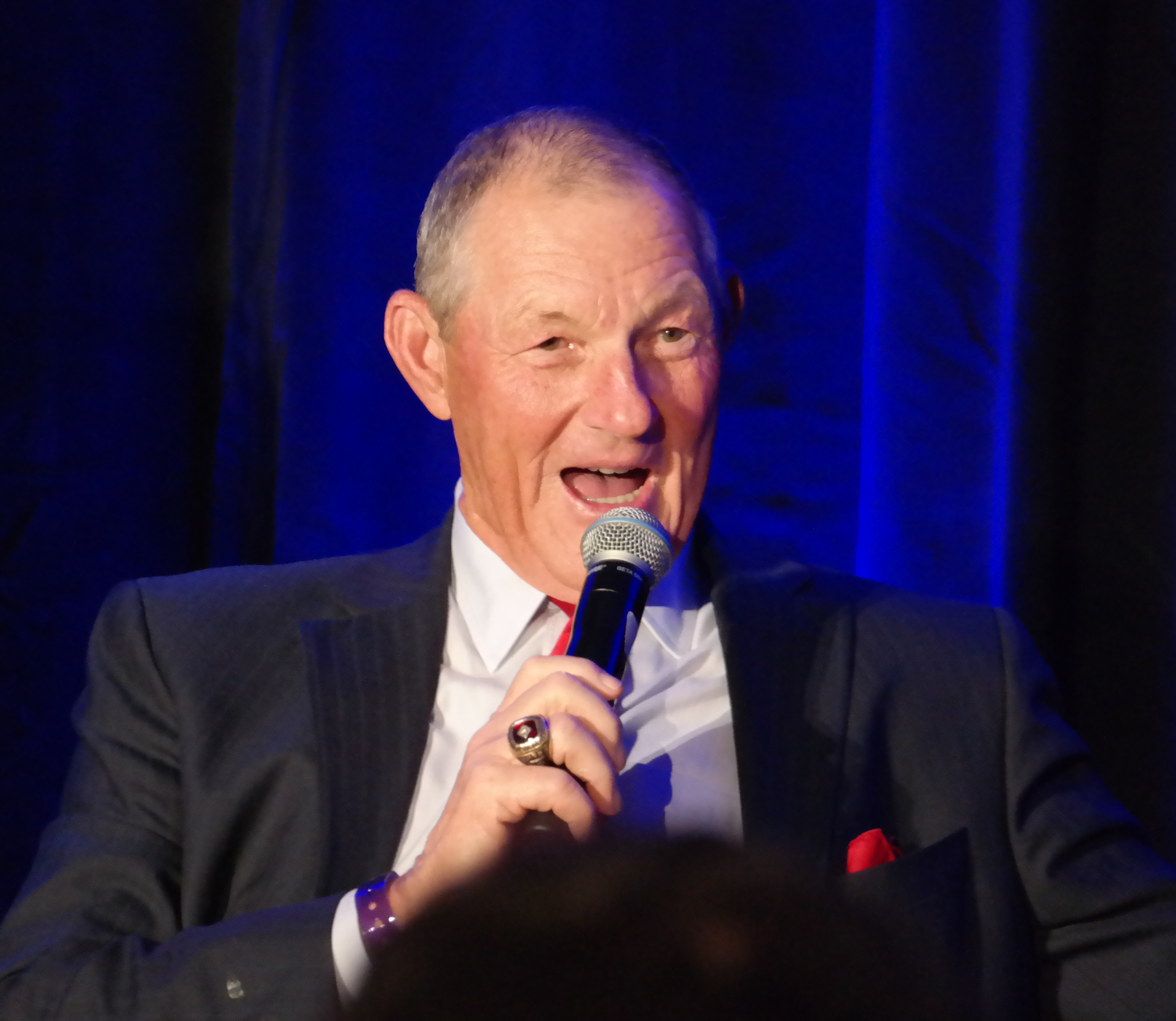 Jim Kaat tells a story during the MLBPAA's #LFYDinner.